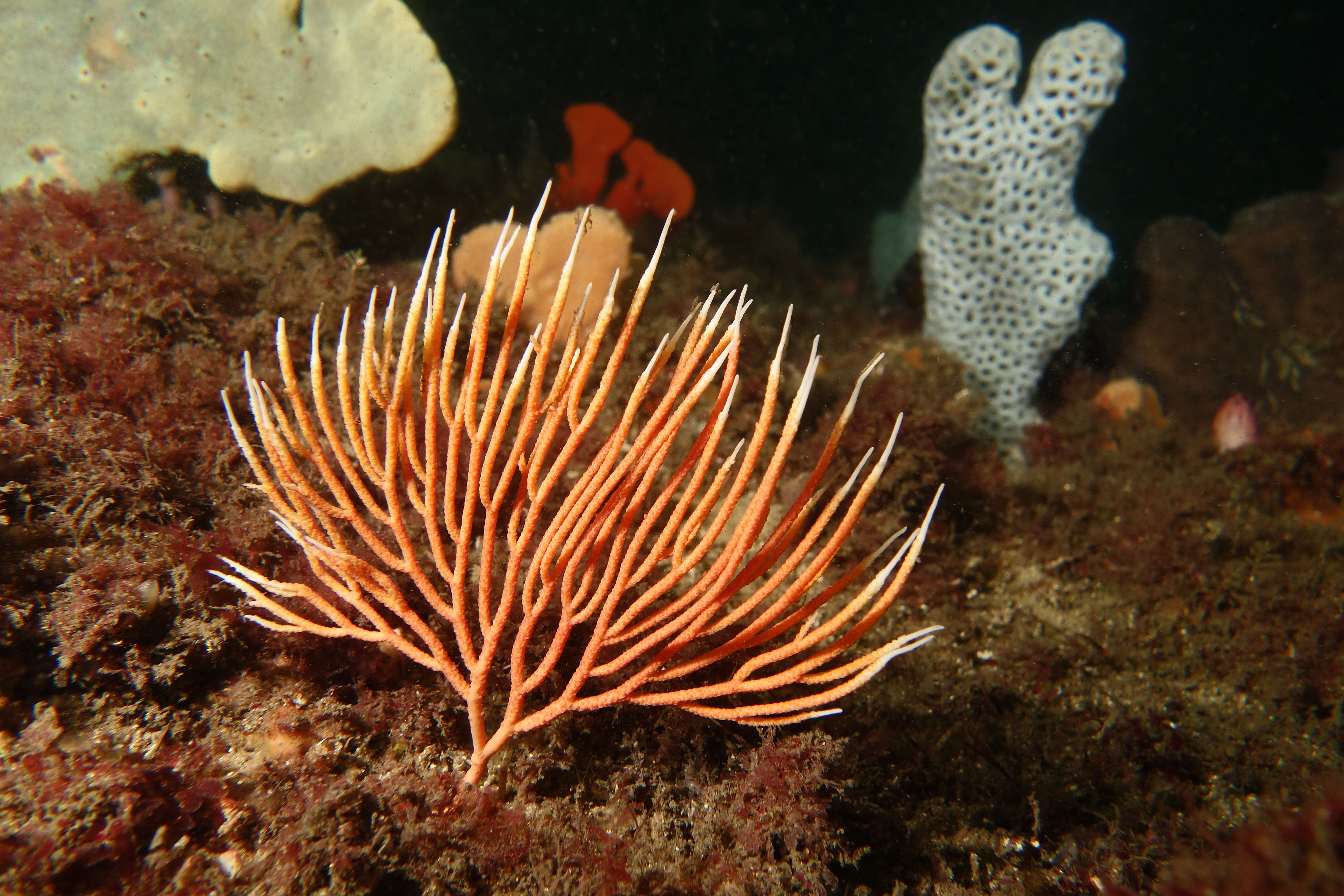 Sphaerokodisis australis Southern sea fan (Bare Island)